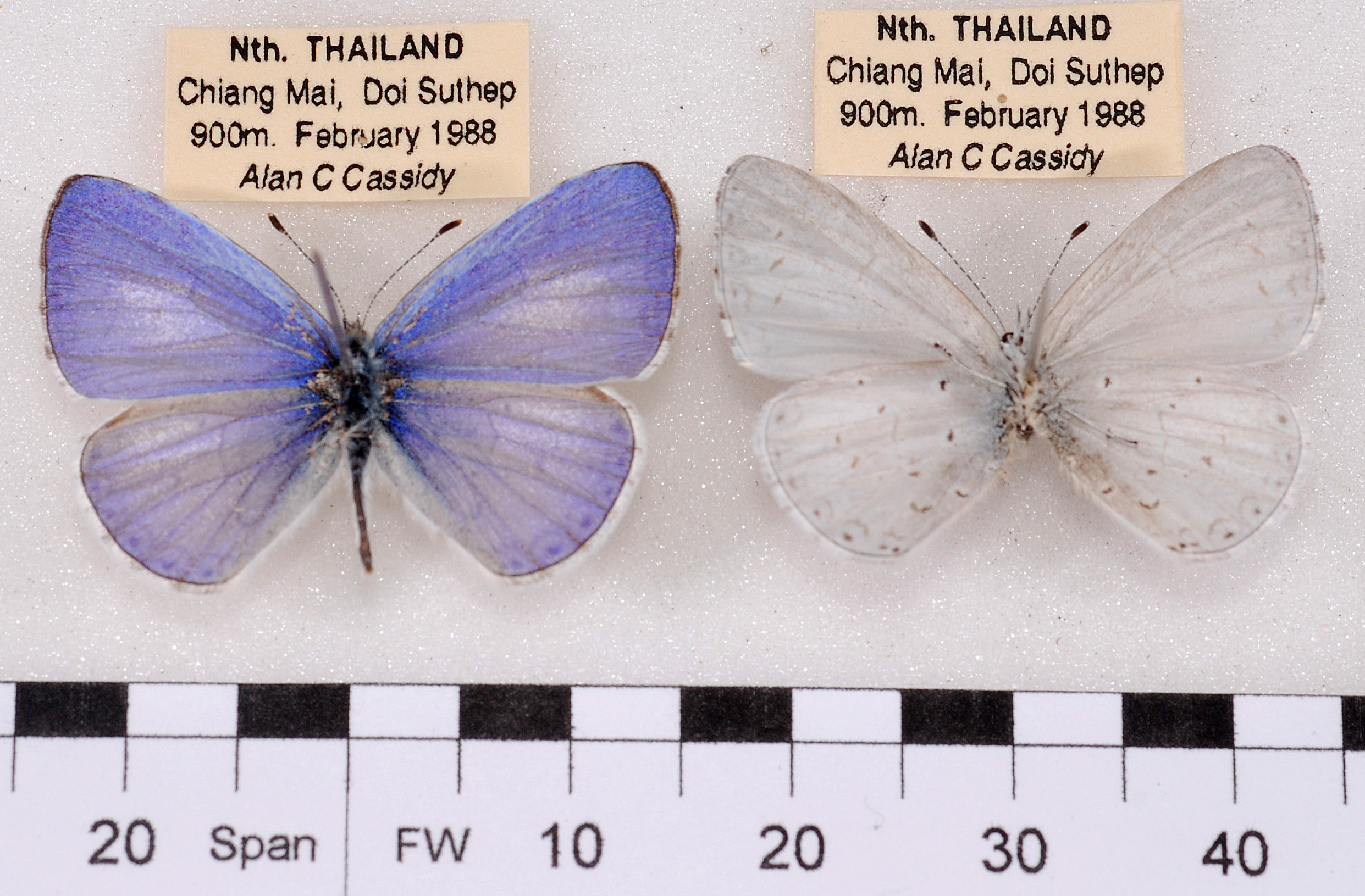 Udara dilecta dilecta, male, set specimen, Thailand